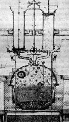 Drawing fragment of Ivan Polzunov's two-cylinder steam engine, the first two-cylinder engine in the world. Invented in 1763, built 1764-65.